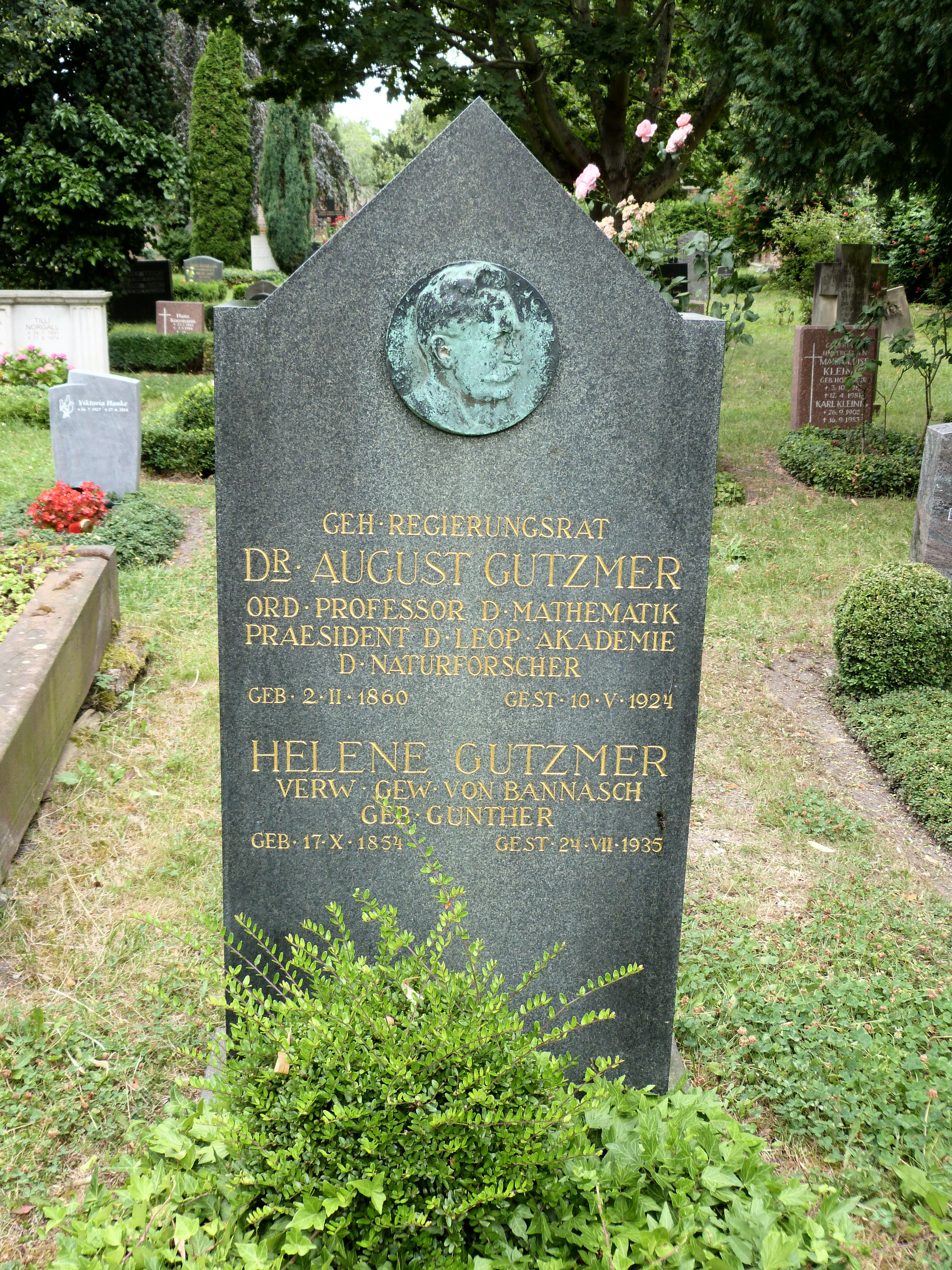 Grave stone for the mathematician August Gutzmer, St. Lawrence cemetery, Halle (Saale), Am Kirchtor